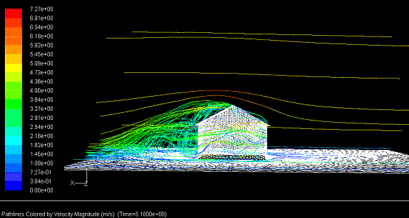 Wind speed contours around a house for wind turbine or anemometer placement.